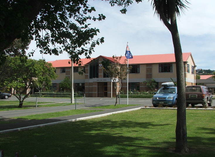 King's High School, Dunedin, New Zealand. Photograph by James Dignan (user:Grutness), December 2006